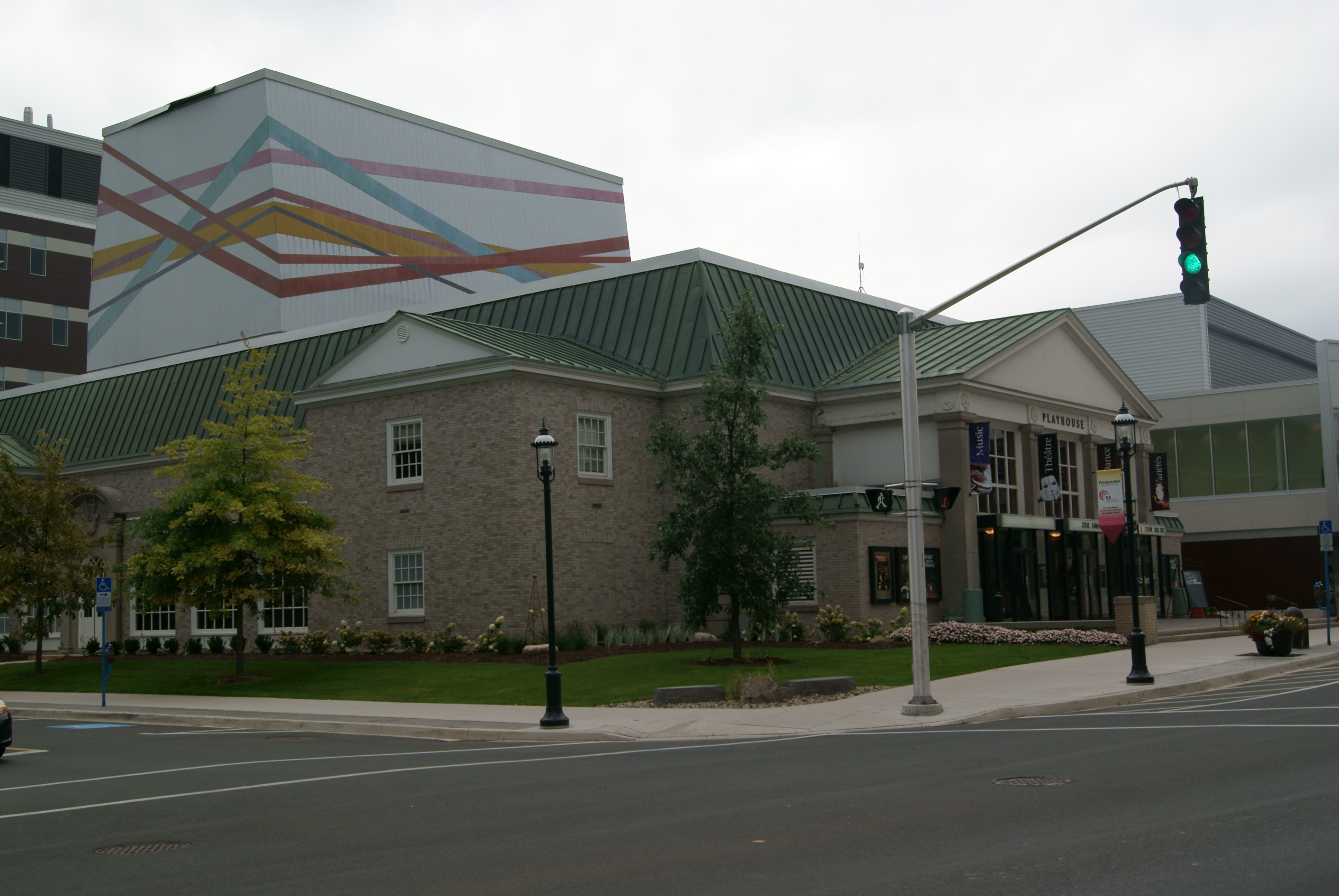 A photograph taken of the Fredericton Playhouse on a September night when a Steve Earle show was sold out.